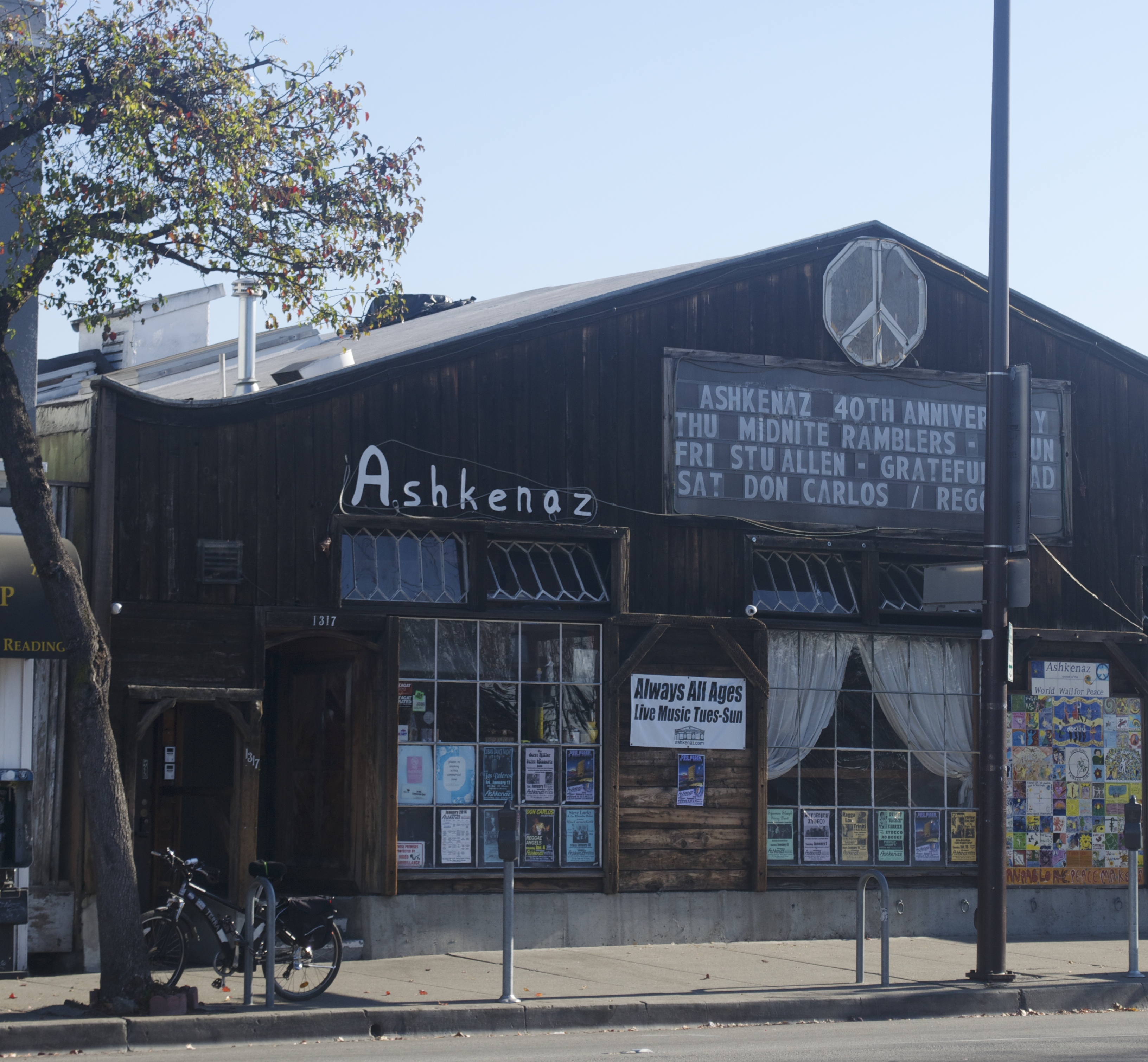 Ashkenaz, 1317 San Pablo Ave., Berkeley, California